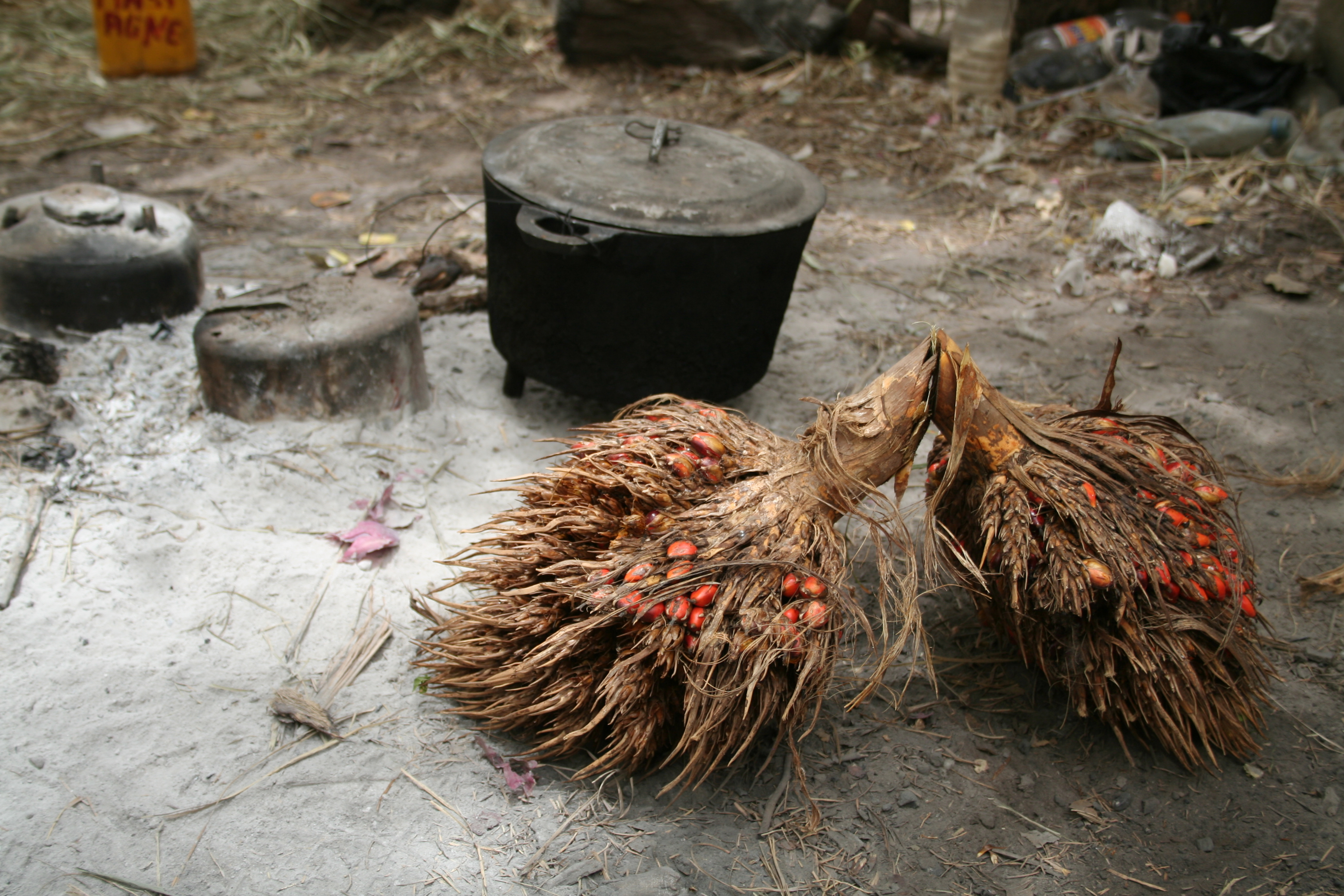 fruits of oil palm, Elaeis guineensis, F.Cl. de Patako, Senegal